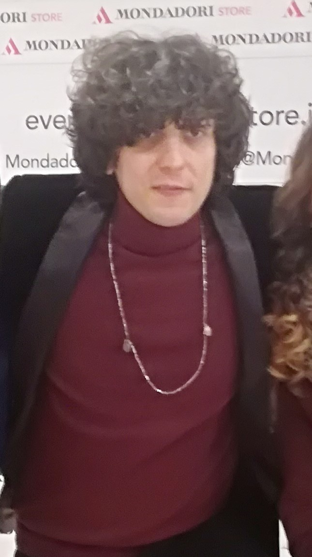 Ermal Meta in Milan during his instore tour on February 17th, 2018